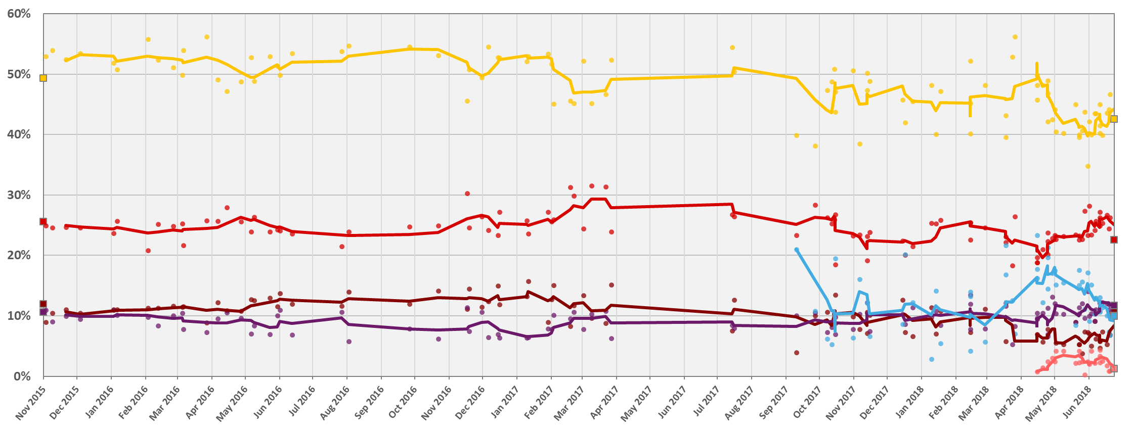 Opinion polling for the Turkish general election, 2018, since the one in November 2015.